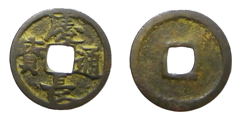 Keicho-tsuho